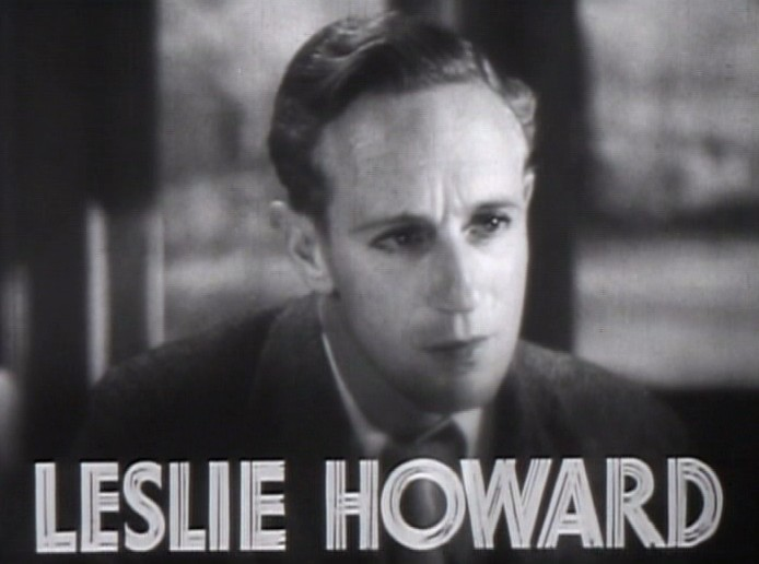 Cropped screenshot of Leslie Howard from the trailer for the film The Petrified Forest.